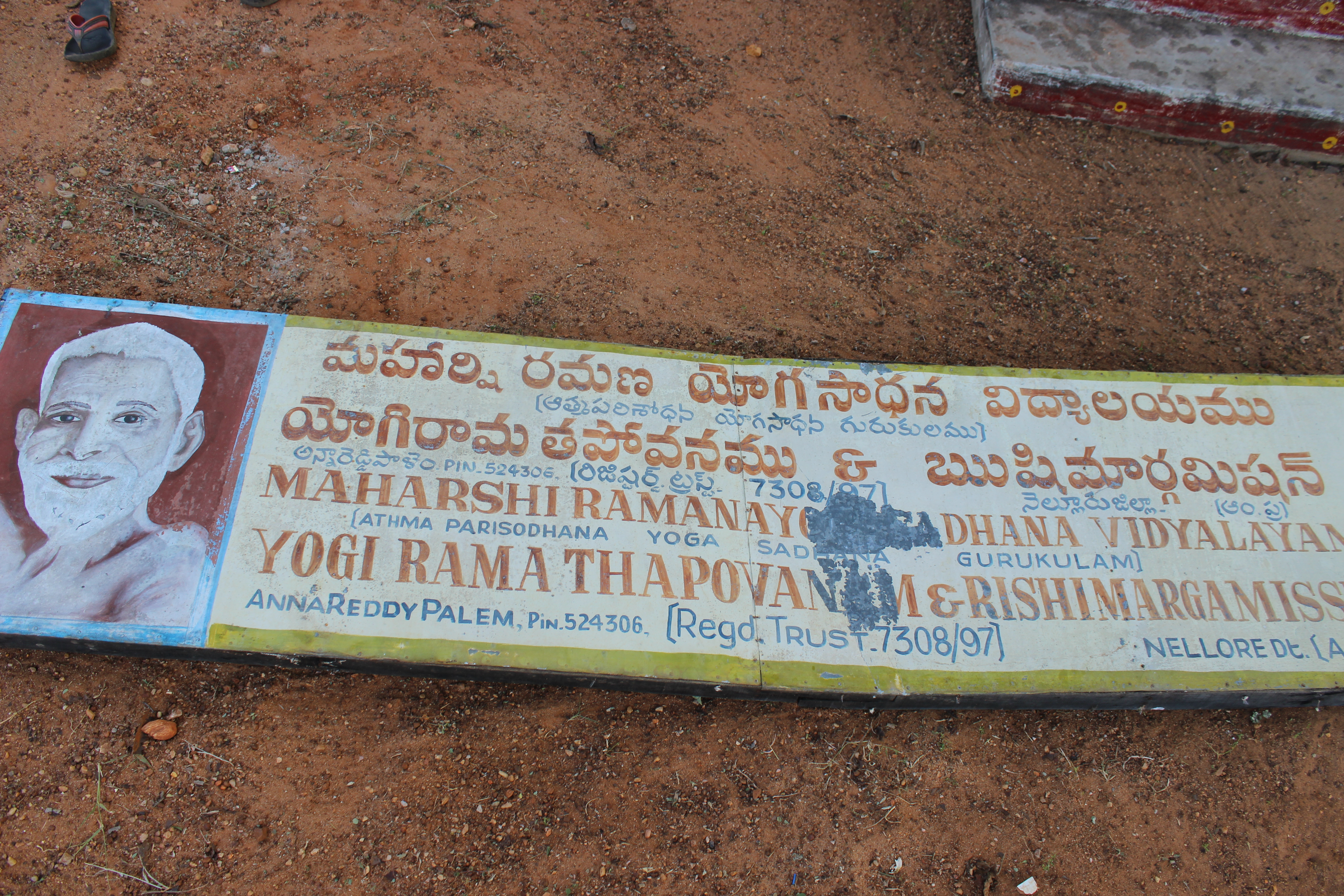 Yogi Ramaiah Asramam , Anna Reddy Palem, Nellore Dist